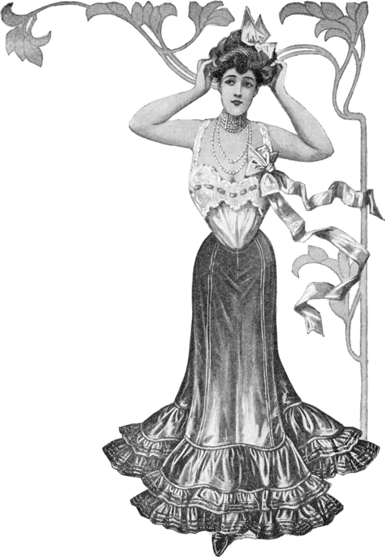 This Skirt is sure to attract your attention and call forth admiration. It is of silk finished mercerised material. Faultless fit. Dainty trimmings. Guaranteed fitted flounce, trimmed with two graduated hemstitched ruffles. Black only. Price, $3.48.